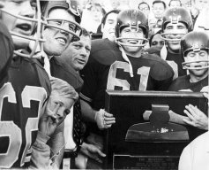 California Golden Bear football team winning the 1967 Big Game. The title is incorrect.